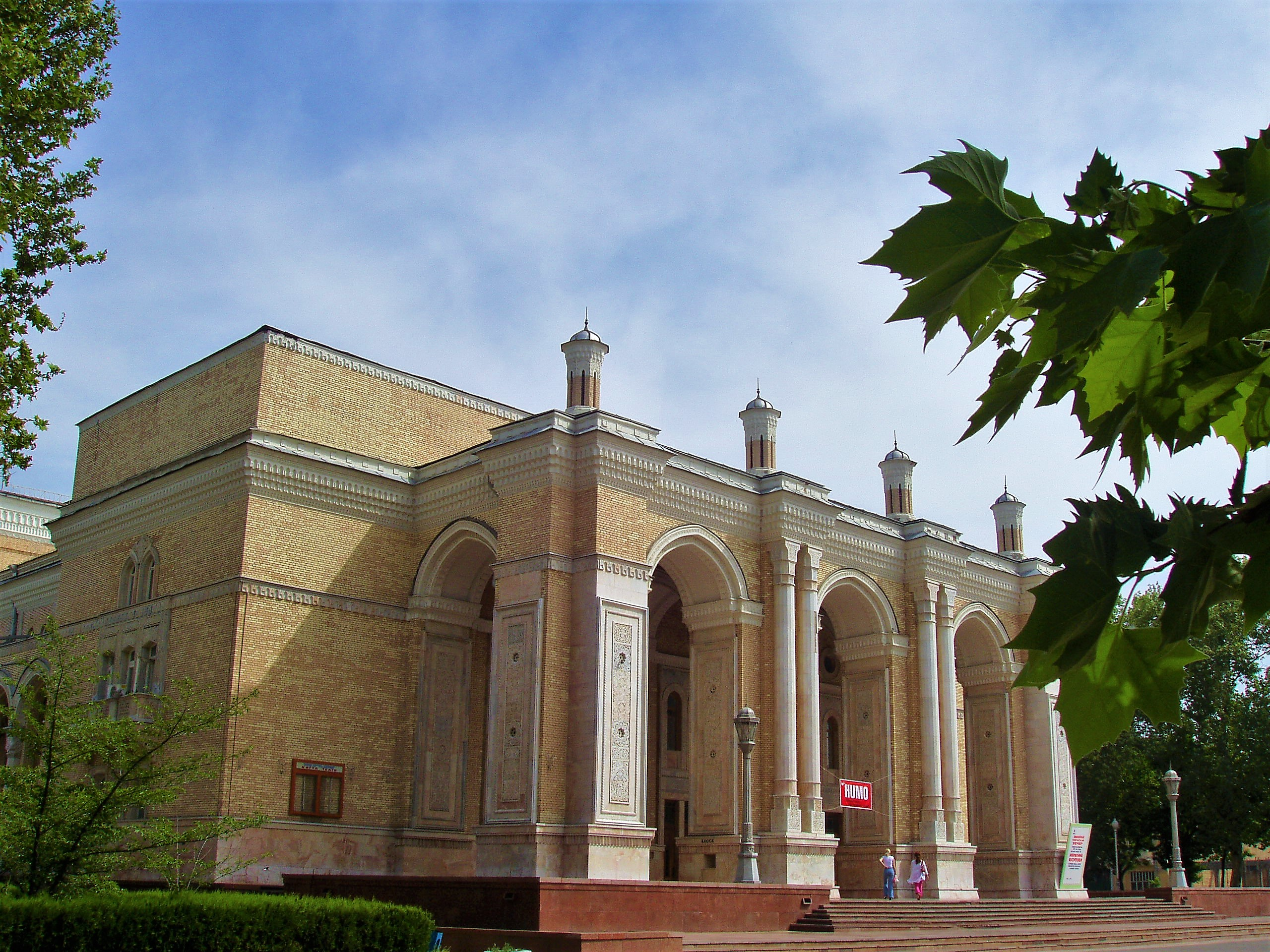 Tashkent (Uzbekistan) : Navoï theater